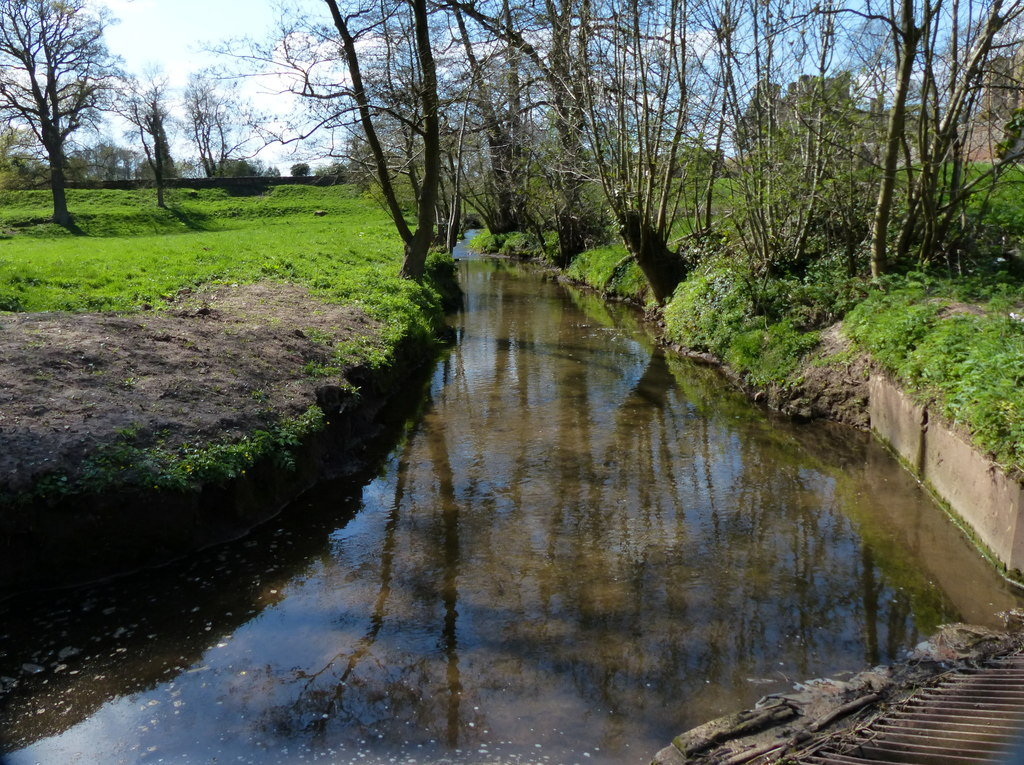 Finham Brook in Kenilworth Looking west from the Castle Road bridge.